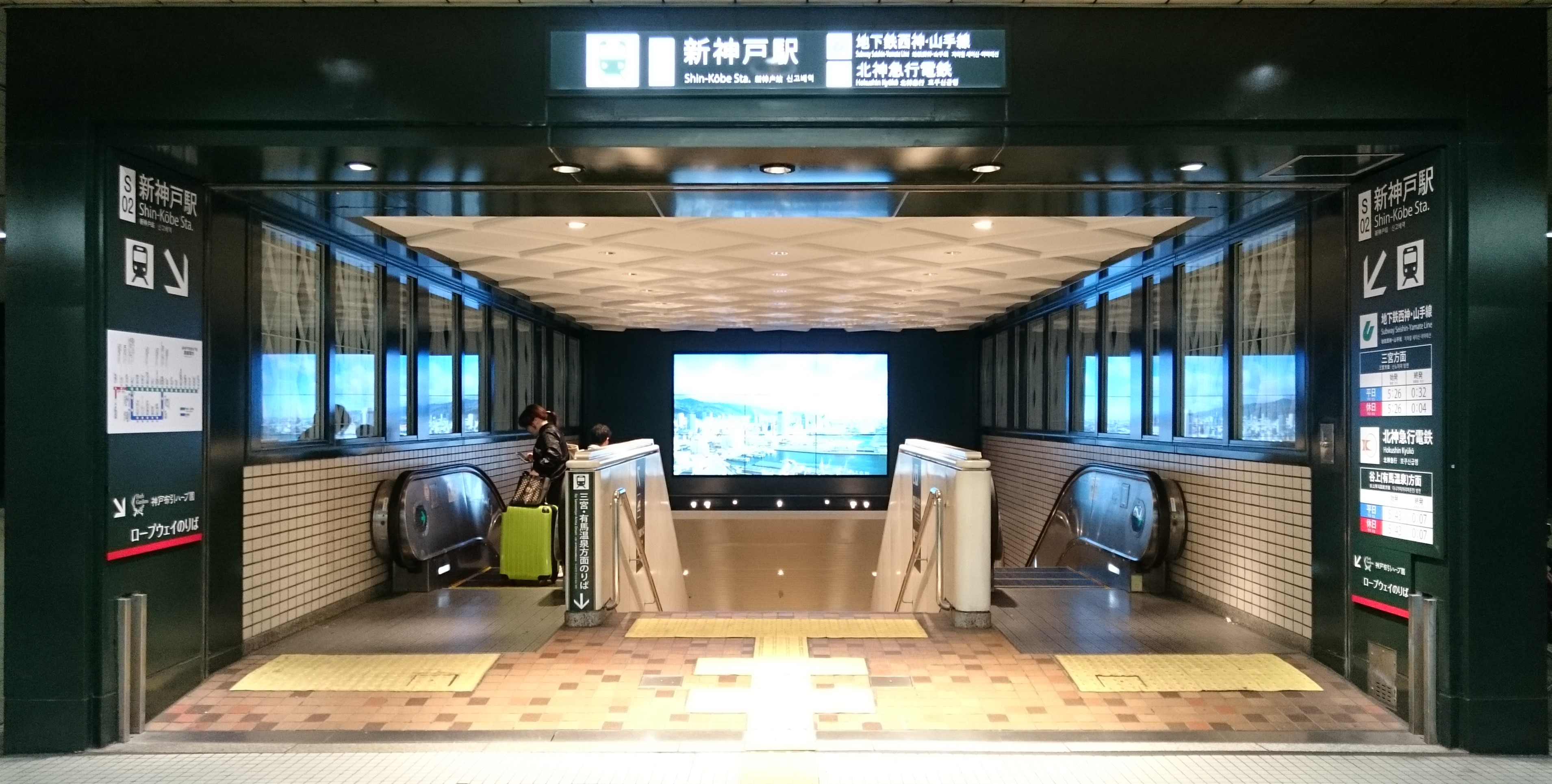 The entrance to Shin-Kobe Station (S02) on the Kobe City Subway Seishin-Yamate Line